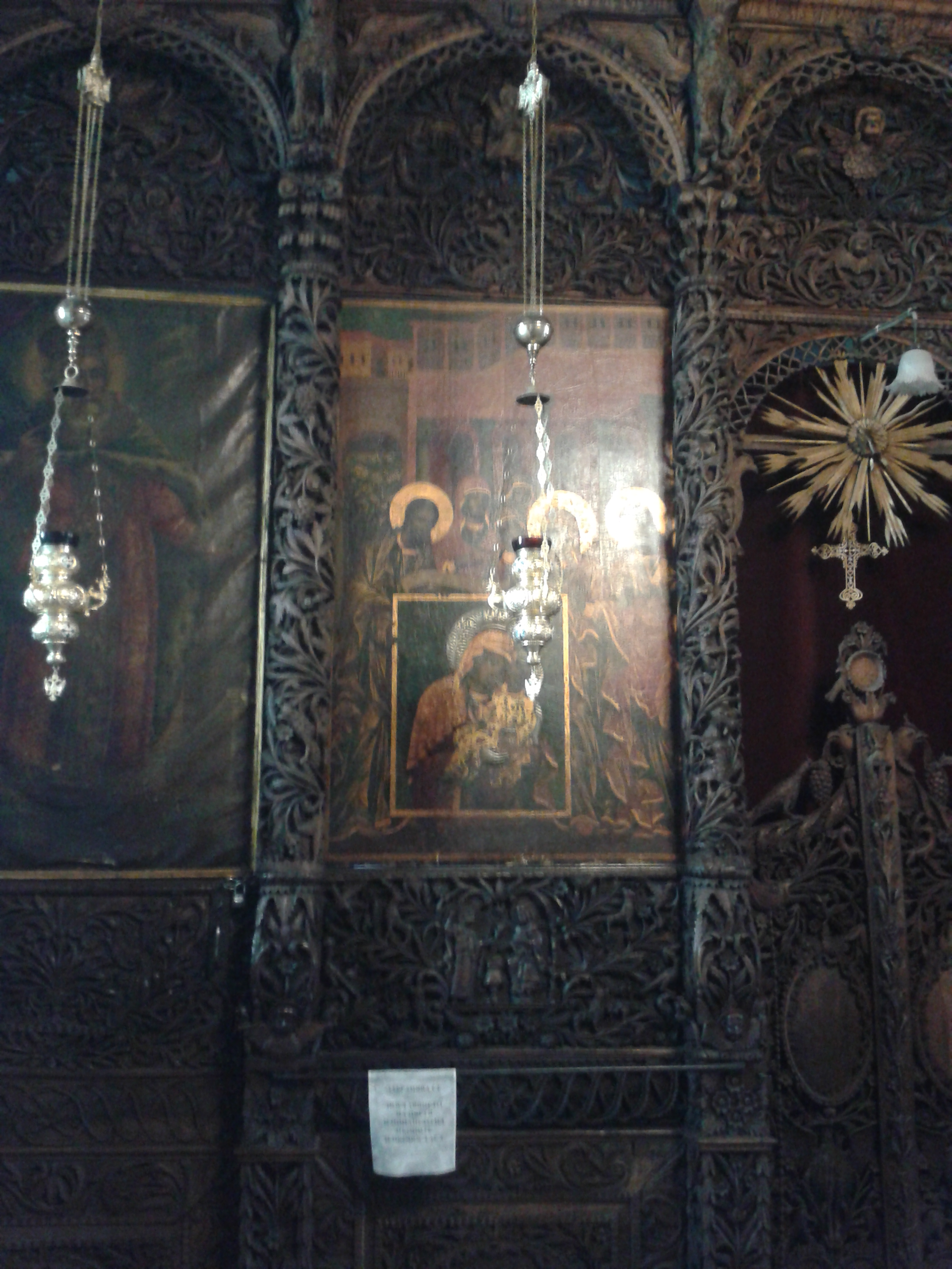 Icon in the Dormition Church in Pazardzhik.